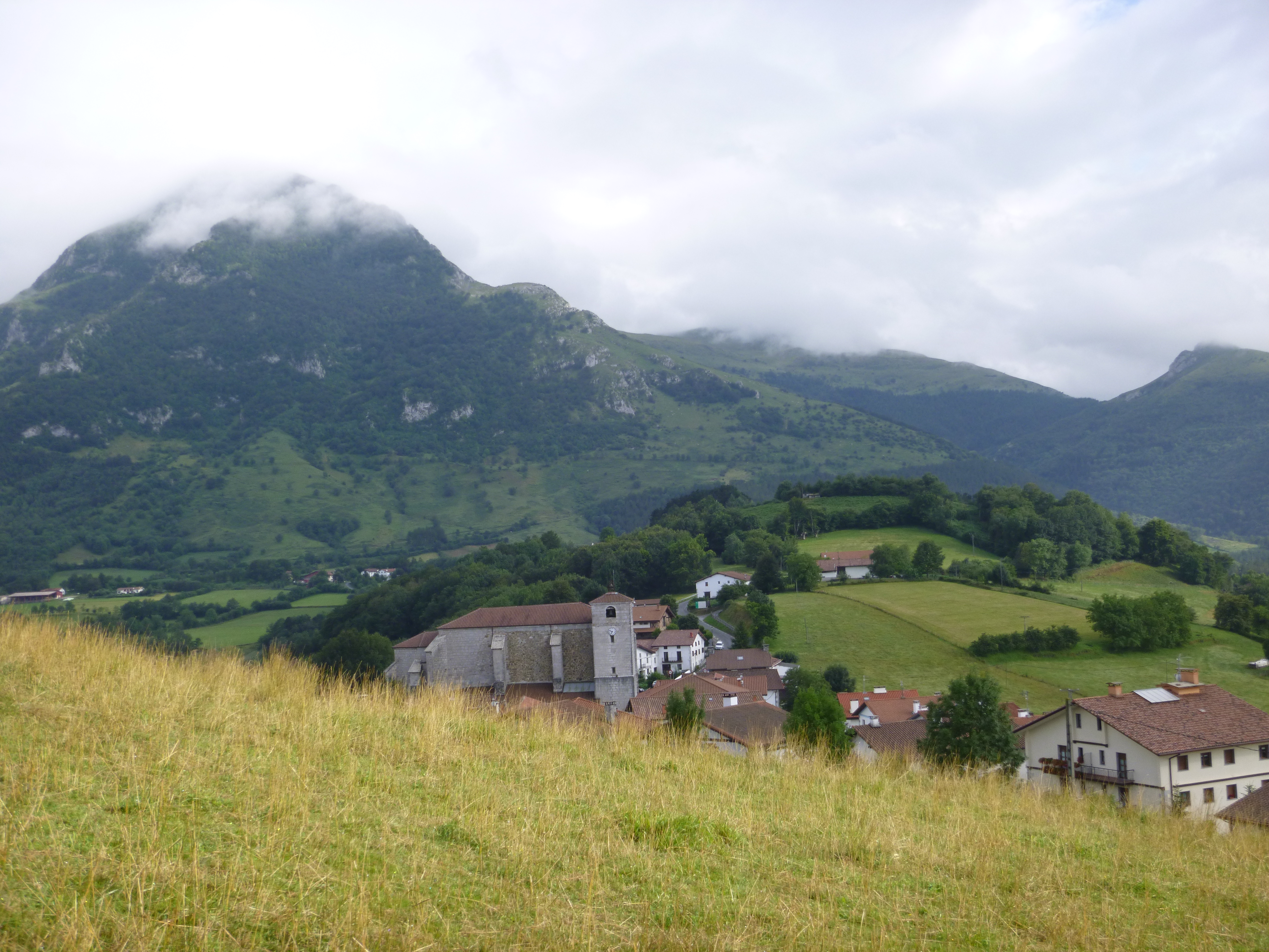 Abaltzisketa.